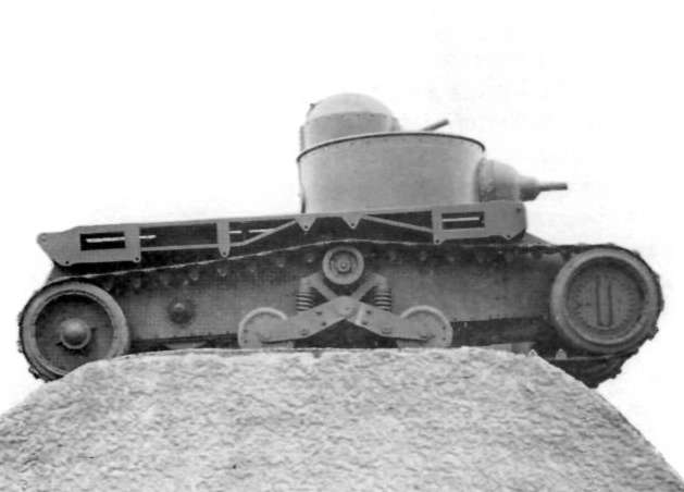 MEDIUM TANK (CHRISTIE TYPE) Going up and down 45º and 35º slopes.